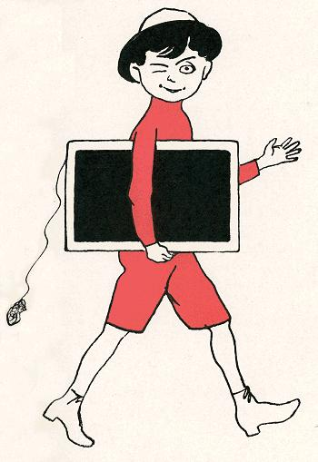 Pietje Bell on his way to school